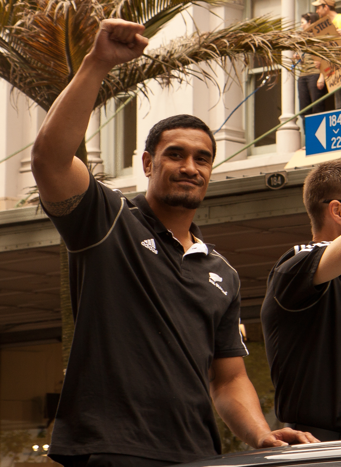 new Zealand rugby union player Jerome Kaino